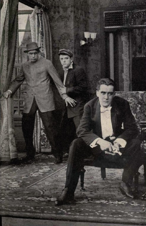 Still from the film A Good Turn (USA 1911) which was directed by Harry Solter with Arthur V. Johnson shown seated. Still was published in David S. Hulfish, Cyclopedia of Motion-Picture Work (1914).